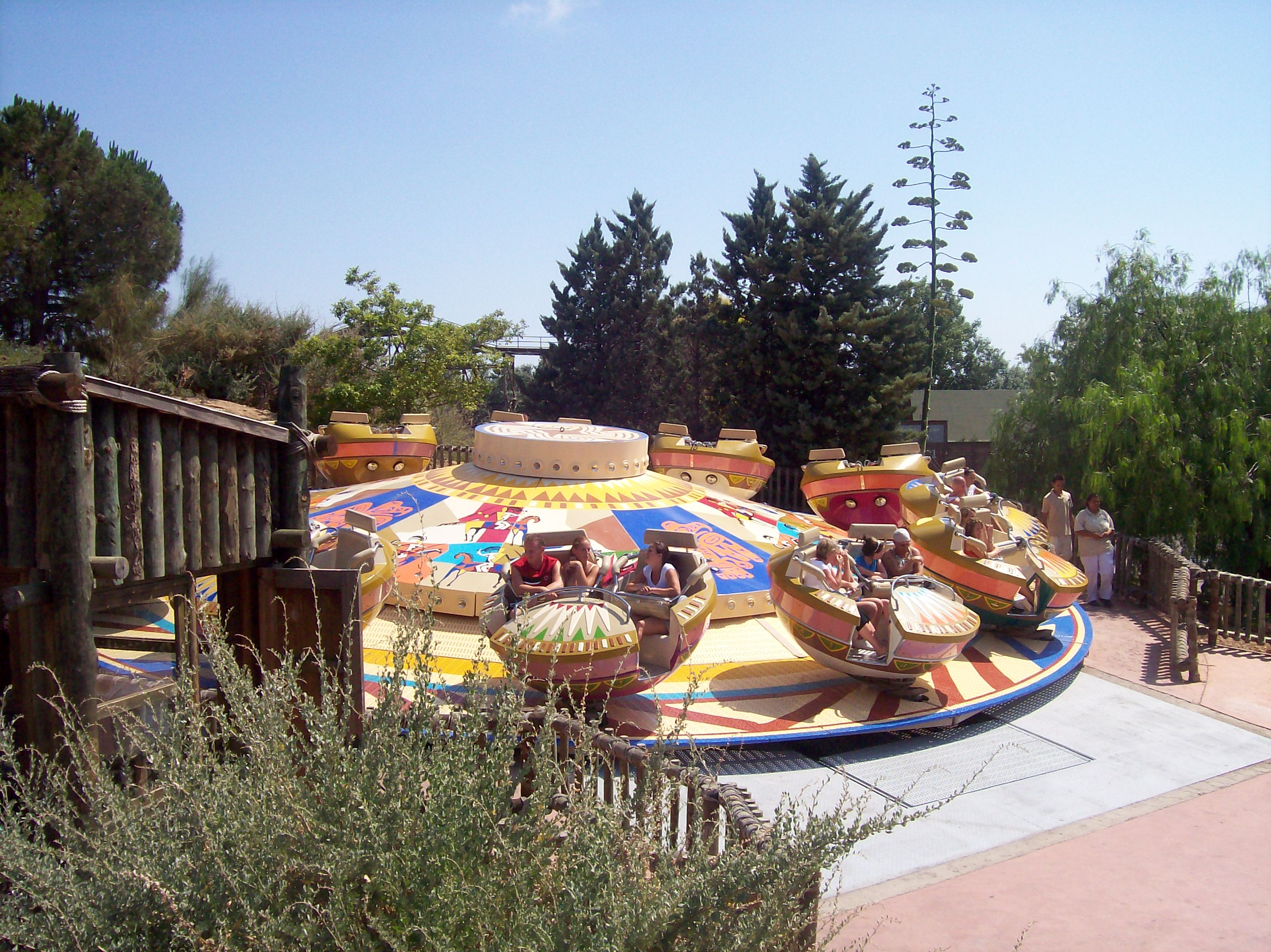 Volpaiute attraction at Port Aventura.